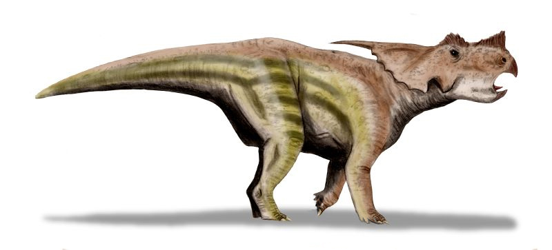 Achelousaurus horneri, a ceratopsian from the Late Cretaceous of North America, pencil drawing, digital coloring. Matches proportions shown in Gregory S. Paul (The Princeton Field Guide to Dinosaurs, 2010, p. 263)